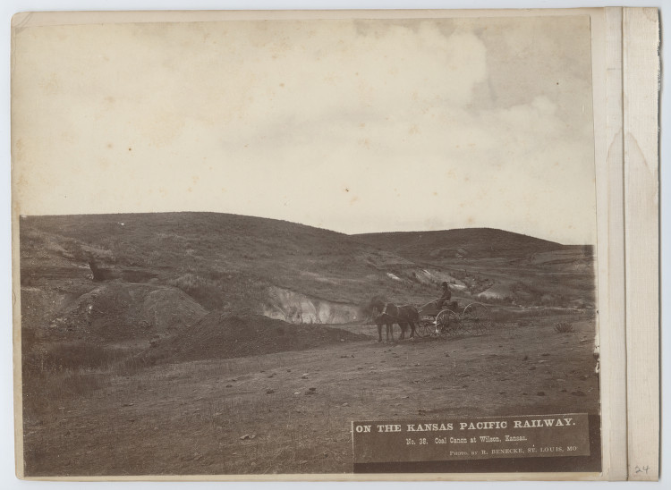 Title: No. 38. Coal Canon at Wilson, Kansas. Small coal mine in the Dakota Formation. Creator: Benecke, Robert, 1835-1903 Date: 1873 Place: Wilson, Kansas Part Of: //digitalcollections.smu.edu/cdm/search/collection/wes/searchterm/Vault Ag1982.0086/mode/exact/ Physical Description: 1 photographic print: albumen; 19.25 x 25 cm. on 20 x 27.5 cm. mount File: vault_ag1982_0086_38_opt.jpg Rights: Please cite DeGolyer Library, Southern Methodist University when using this file. A high-resolution version of this file may be obtained for a fee. For details see the web page. For other information, For more information, View U.S. West: Photographs, Manuscripts, and Imprints